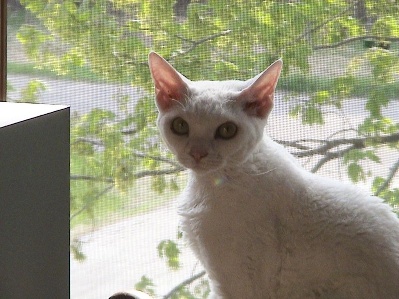 a white devon rex.